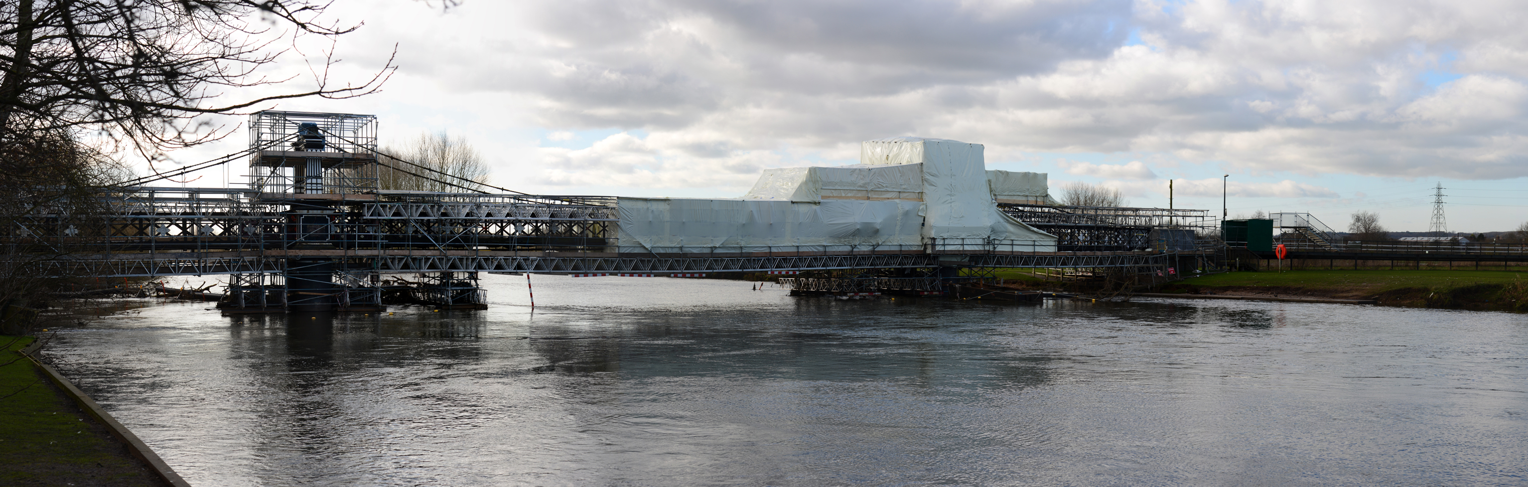 Ferry Bridge under renovation